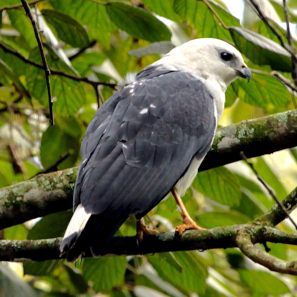 White-necked Hawk at Botanic Garden, São Paulo - Brazil